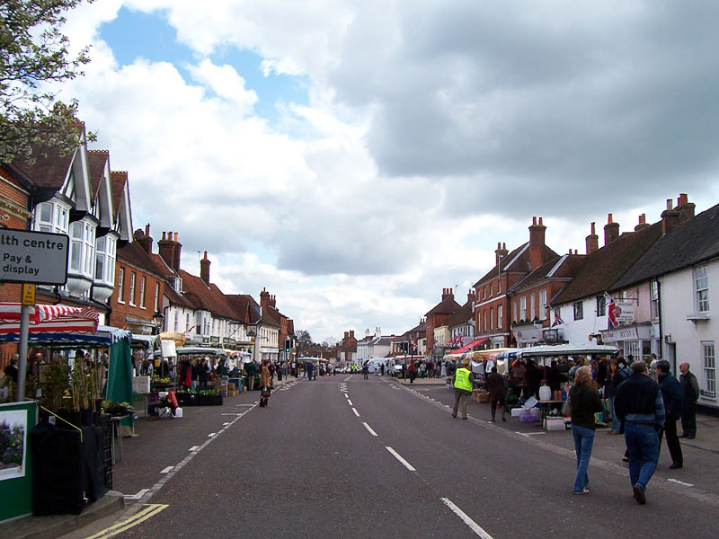 I took Matthew Trow's File:Odiham-highstreet.jpg and brightened the street slightly without "washing out" the sky. I've left the old image too, so that if everyone prefers the original it will be easy to revert.